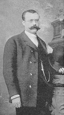 Pinkerton agent James McParland (1843–1919)